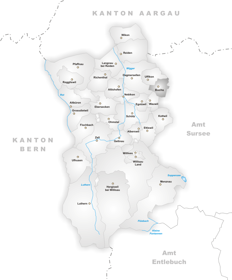 Municipality Buchs